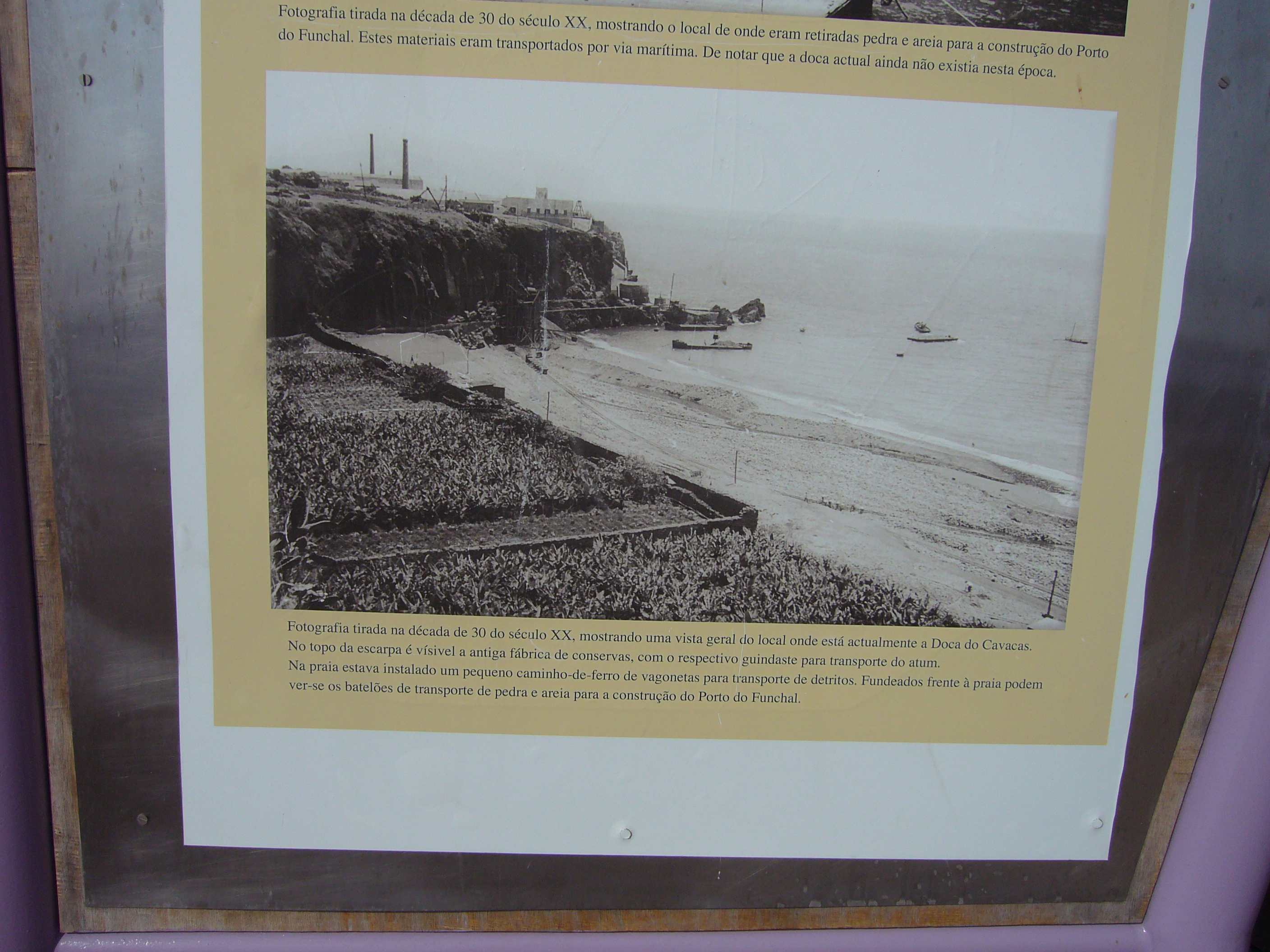 Doca do Cavacas - Funchal (Madeira)